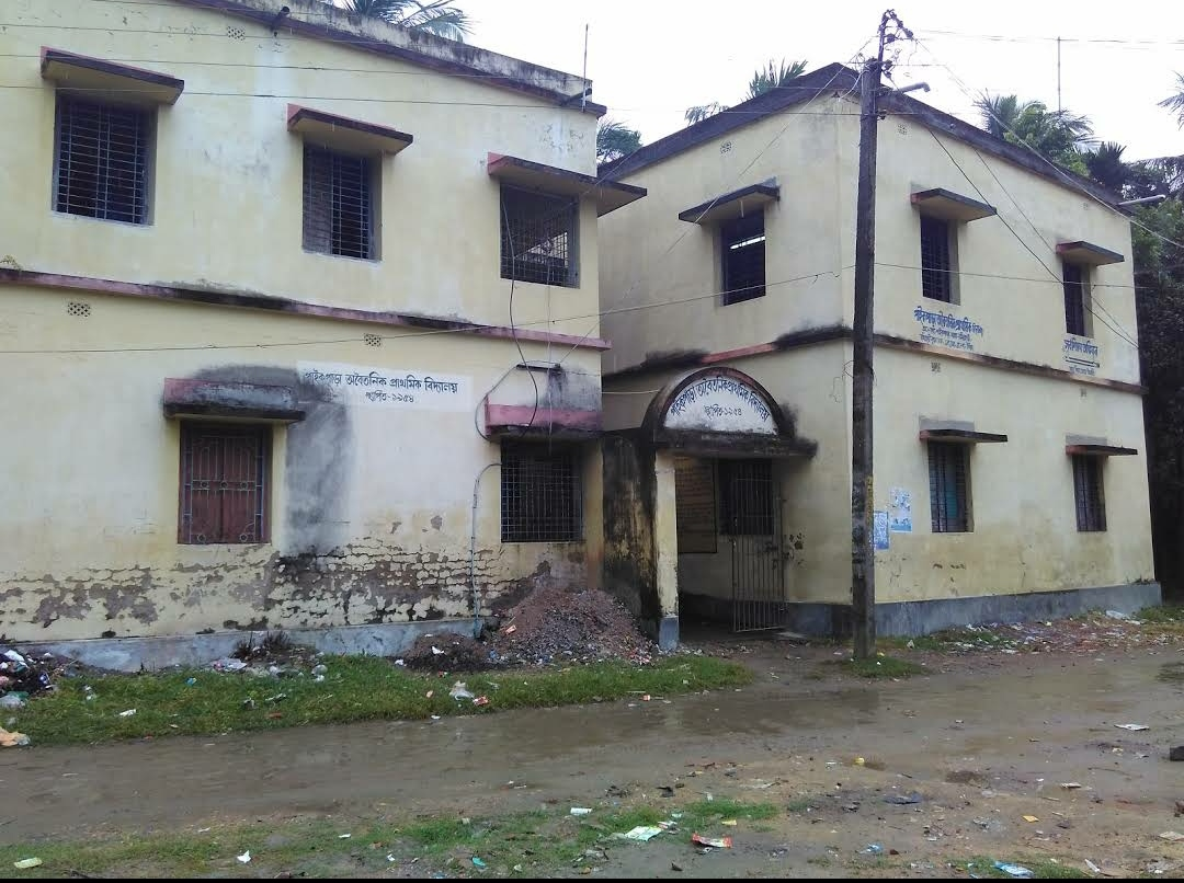 Paikpara f.p. school